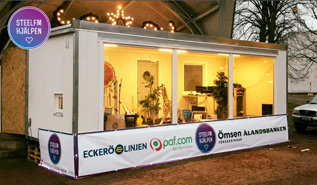 SteelFMHjälpen on main square Mariehamn